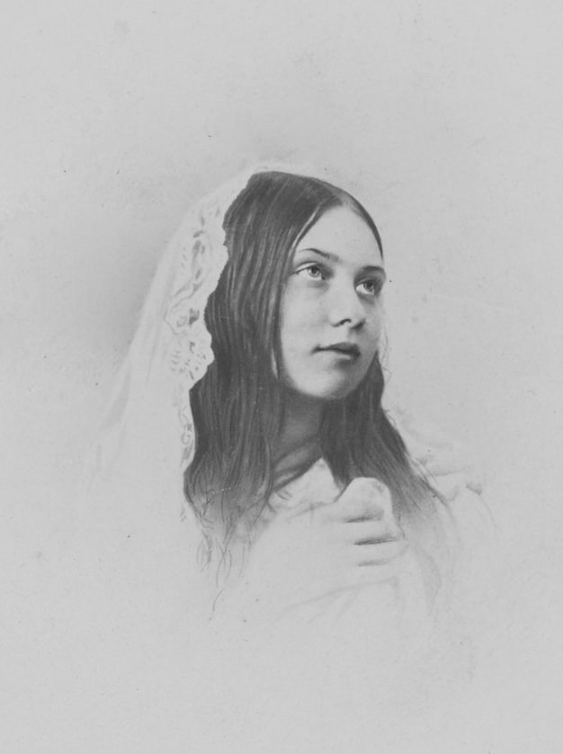 Victoria - Princess Royal (future German Empress), 1855